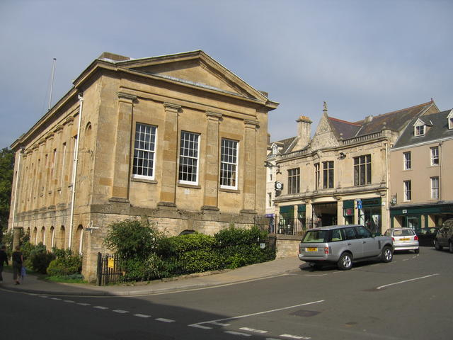 Chipping Norton, Oxfordshire: Town Hall (left) and former Co-Operative store (right)